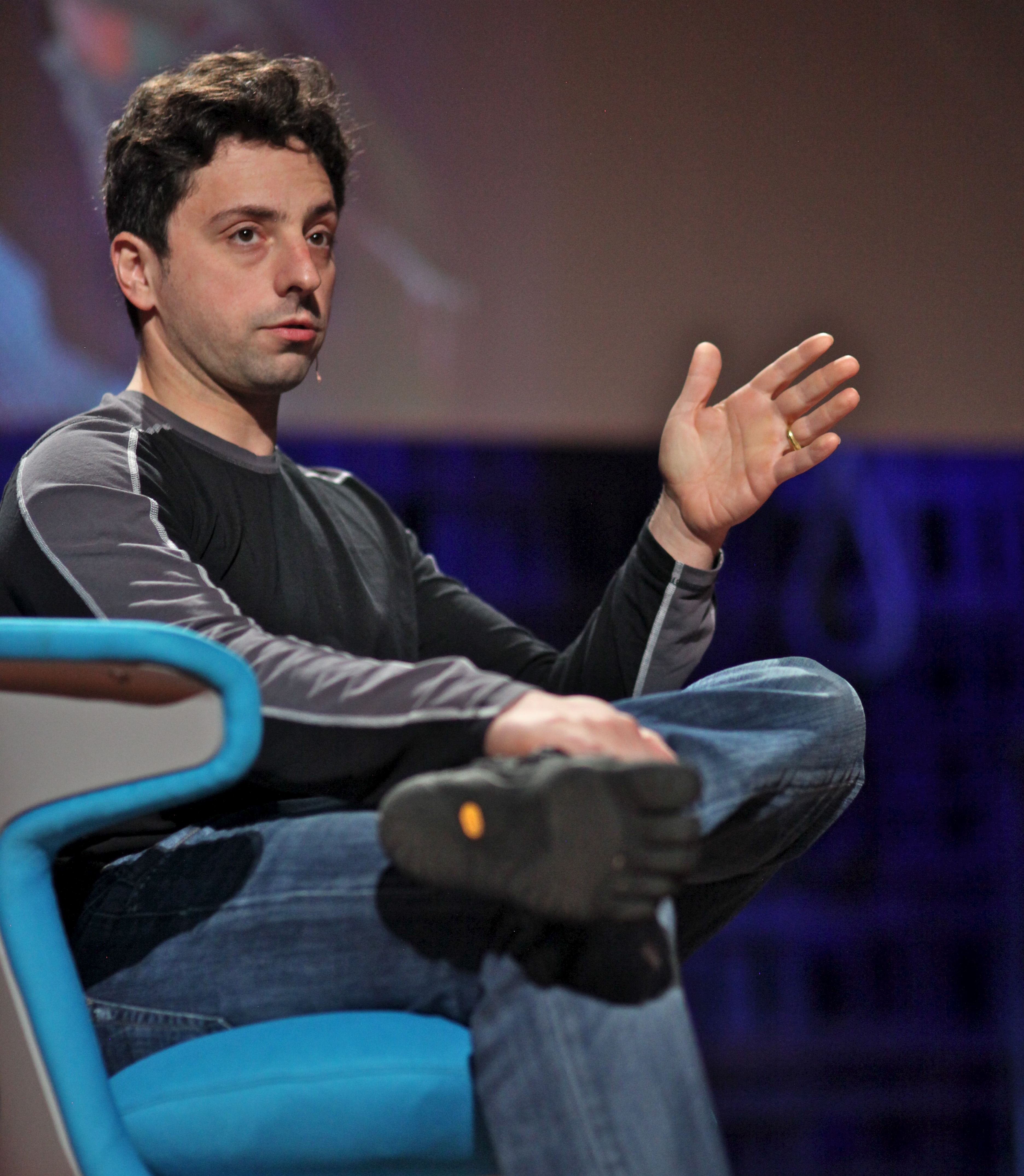 A surprise guest at TED 2010, Sergey spoke openly about Google’s new posture with China.